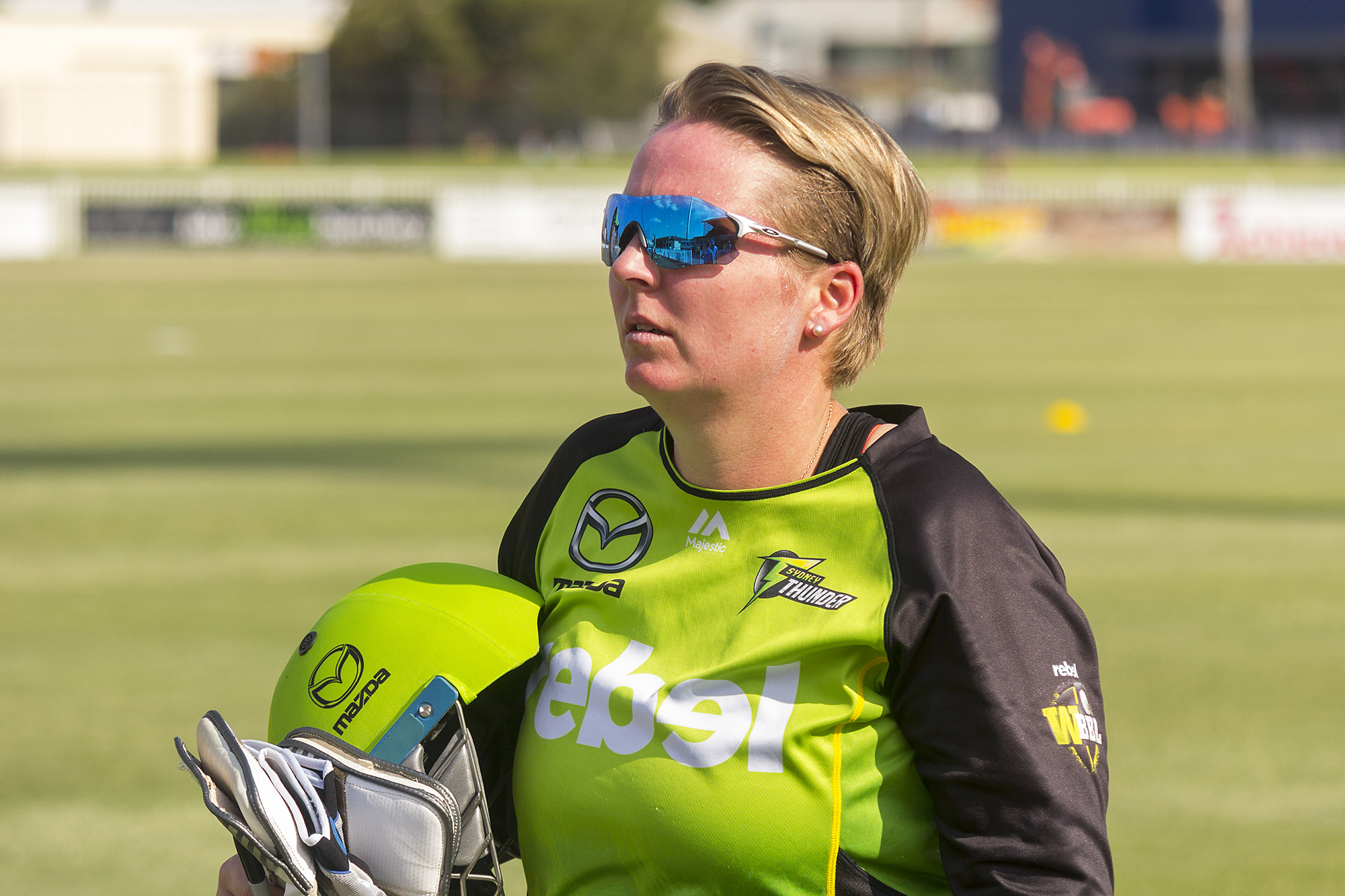 Rachel Priest after the Sydney Thunder vs Adelaide Strikers WBBL game at Robertson Oval